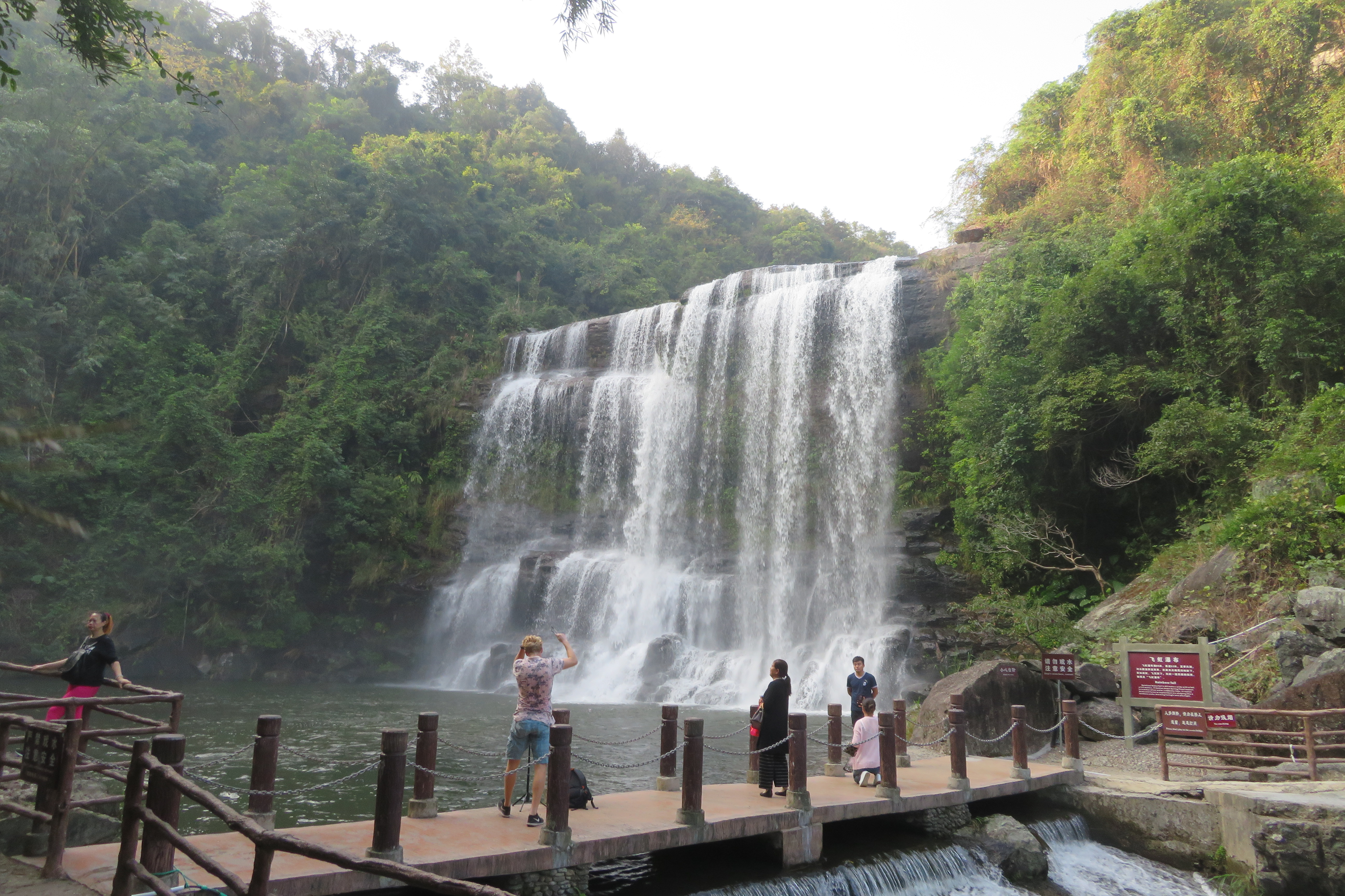 The top waterfall (Rainbow fall) of the five Huangmanzhai falls in Jiexi county, Guangdong, China